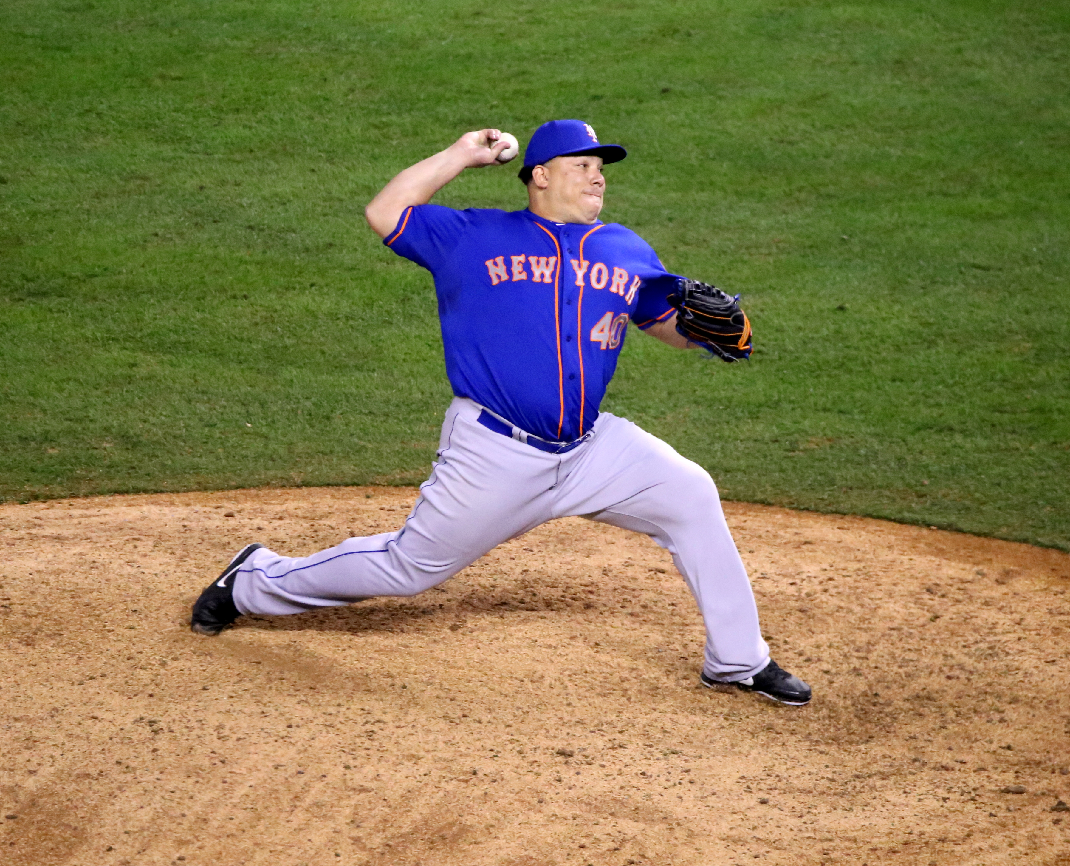 Bartolo Colon takes a pitch during #WorldSeries Game 1.